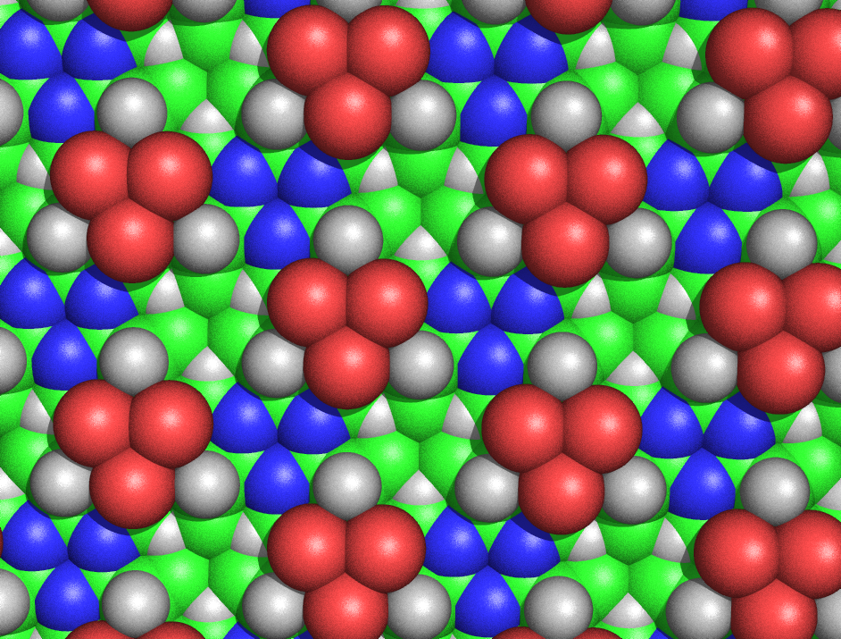 Space-filling image of an alanine cyclol "fabric" proposed by Dorothy Maud Wrinch in 1936 (Nature, _137_, 411-412), as seen from the side where none of the Cβ atoms emerge. This Figure shows the three-fold symmetry of the fabric and also that its extraordinarily density; for example, in the "lacunae" — where three Cβ atoms (shown in green) and three Hα atoms (shown as white triangles) converge — the carbons and hydrogens are separated by only 1.68 Å. The red atoms represent hydroxyl groups (not carbonyl oxygen atoms). The larger green spheres represent the Cβ atoms; the Cα atoms are generally not visible, except as little triangles next to the blue nitrogen atoms. The PDB file was constructed by me using my own software and visualized using PyMol; both were done on 20 October 2006. I hereby release this image under the GFDL.